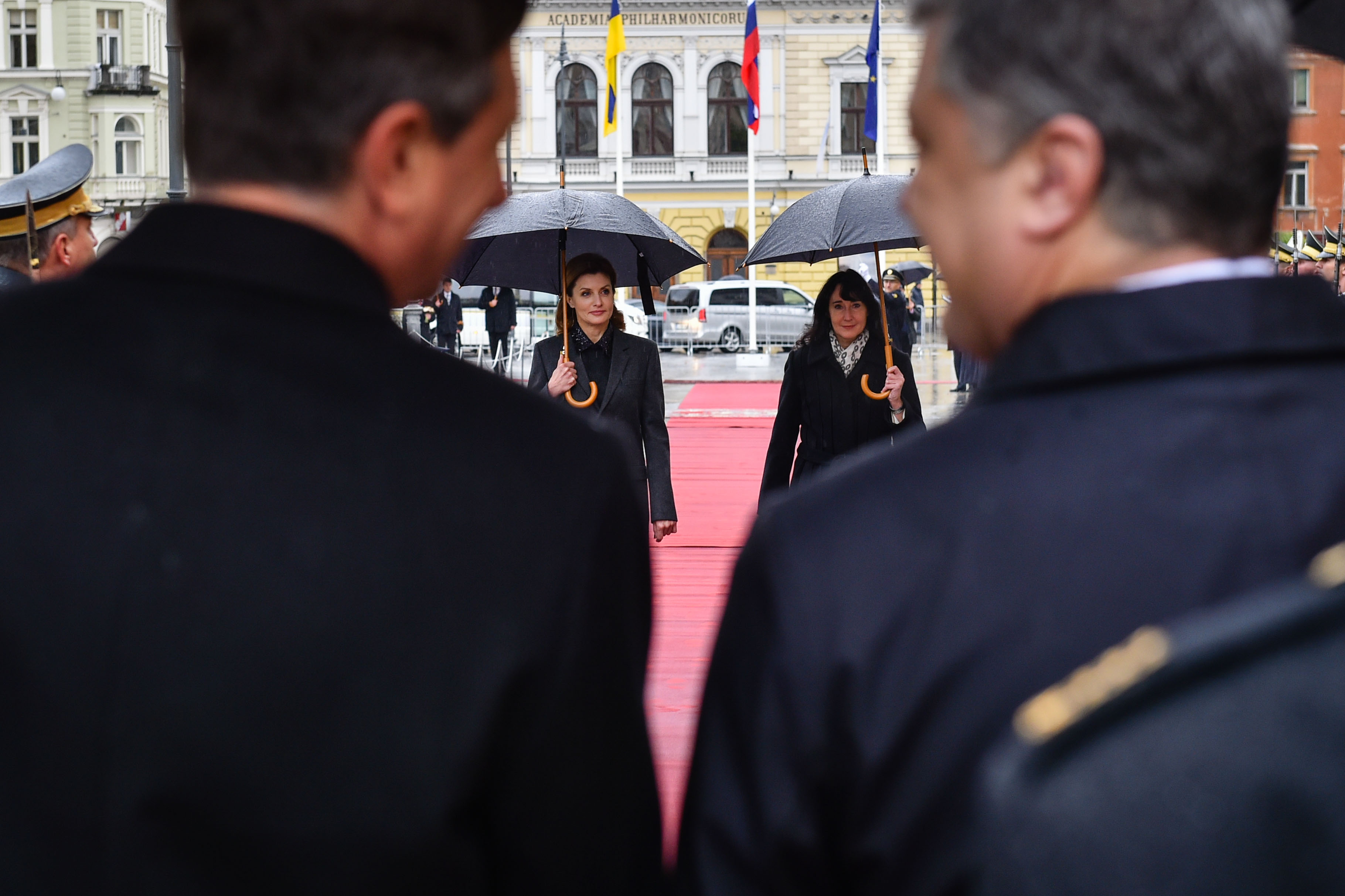 Petro Poroshenko in Slovenia in 2016.